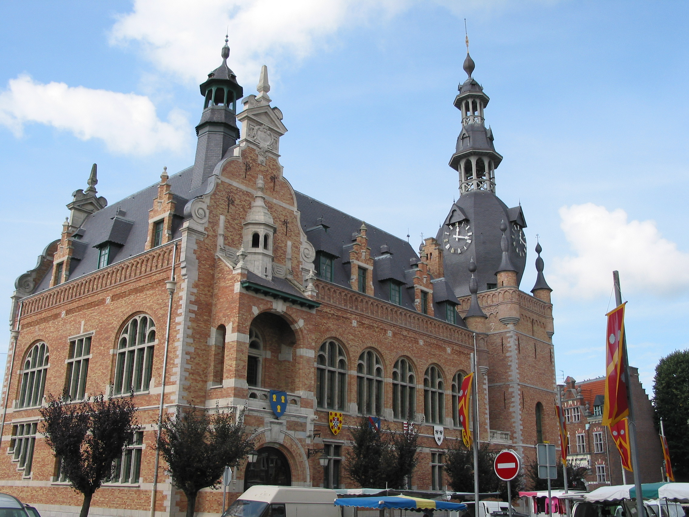 Comines, Nord (France), the town hall and the belfry (1923 - architect: Louis-Marie Cordonnier).